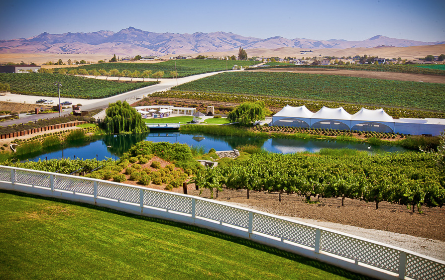 Vineyards in Hollister California overlooking Santa Ana Valley